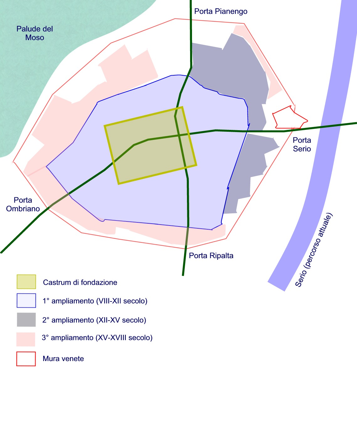 Town planning development of Crema (Italy)